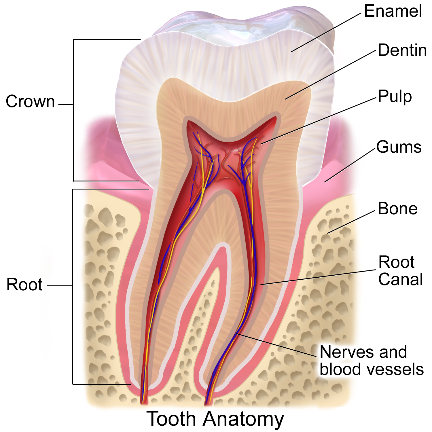 Tooth Anatomy. See a full animation of this medical topic.